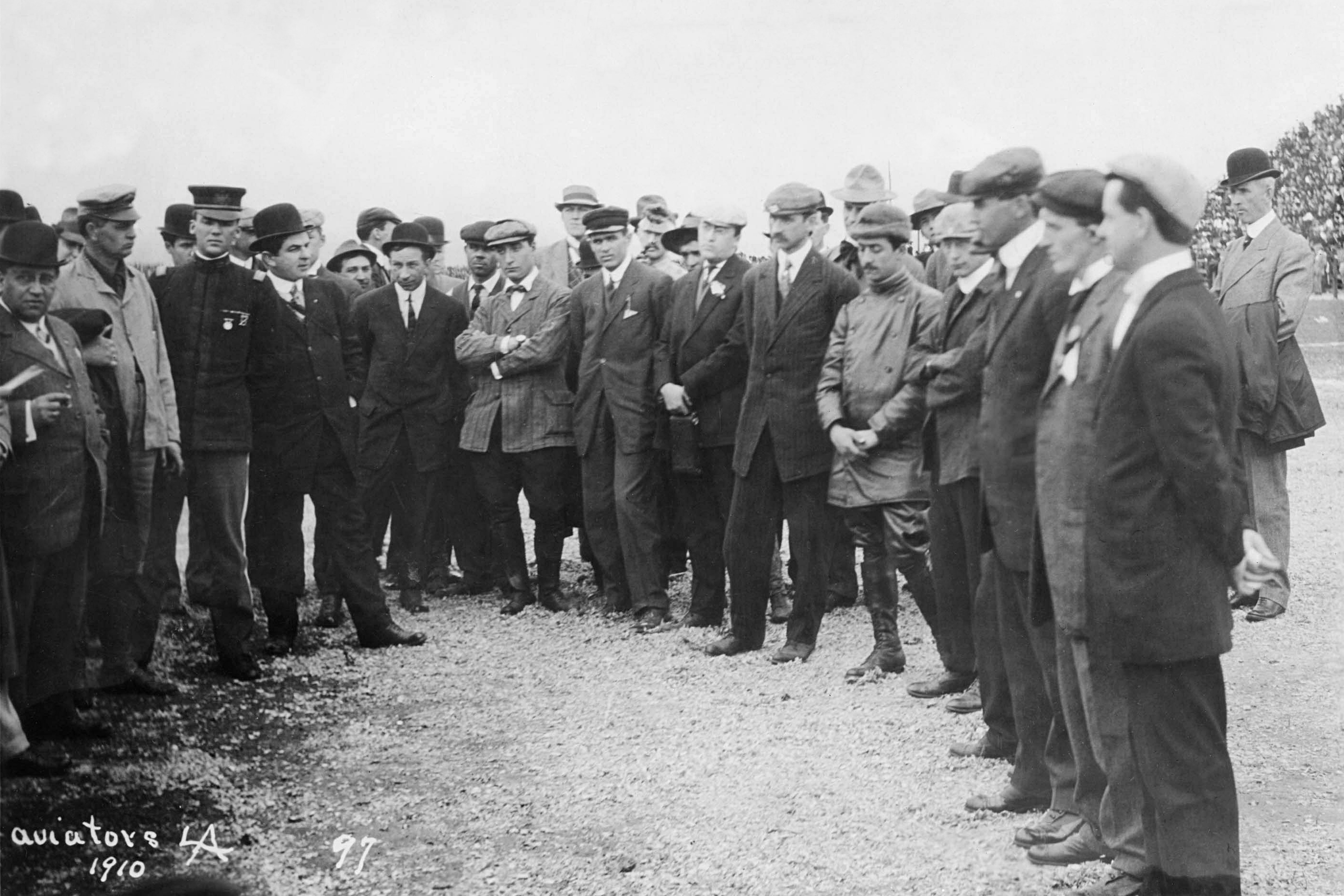 Larger group. (also, slide 23). Identified persons l-r from center include Charles Miscarol (center, arms folded), Hillery Beachey, Col. Frank Johnson, Glenn Curtiss, Louis Paulhan, Charles Willard (arms folded), Roy Knabenshue (tall man at right), Charles Hamilton (light suit, second from end).